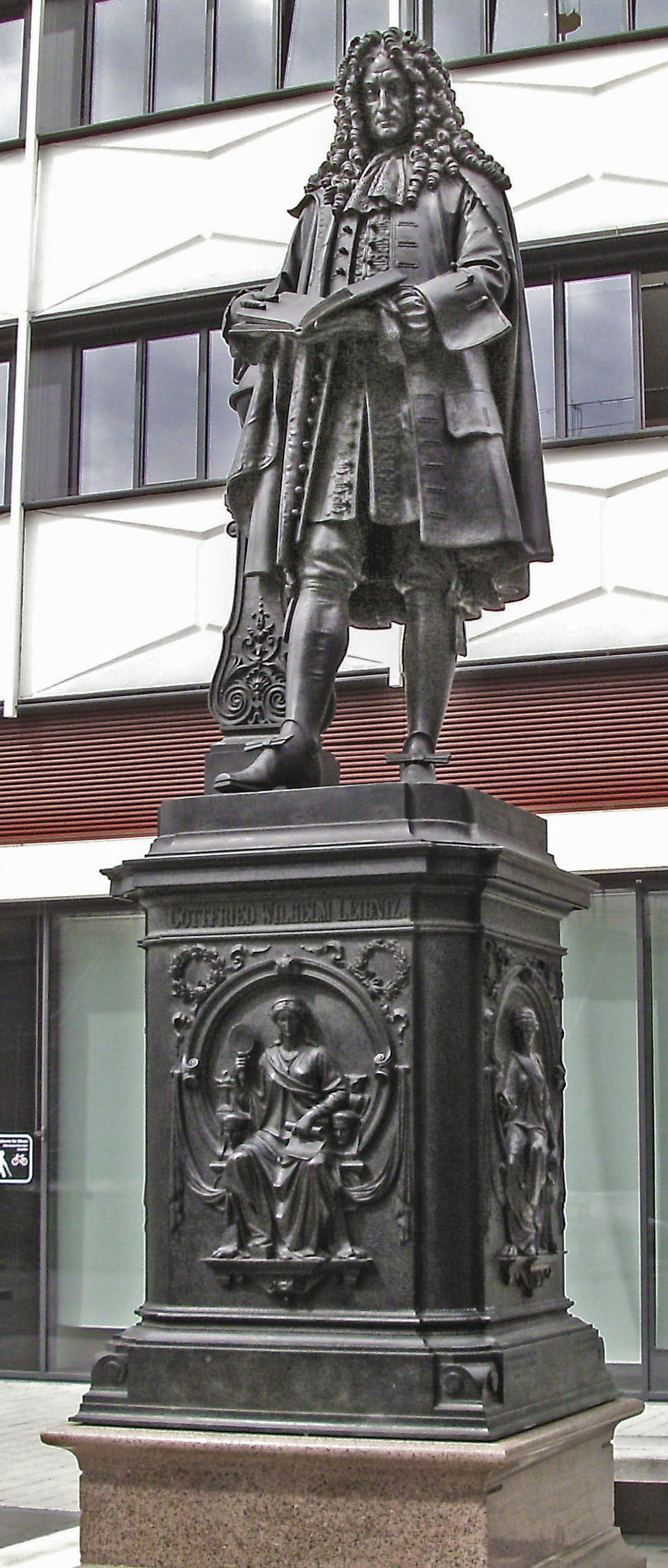 Memorial to Gottfried Wilhelm Leibniz in Leipzig